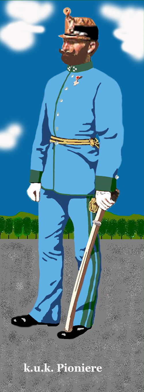 Captain of the k.u.k. Engineers in Paradedress